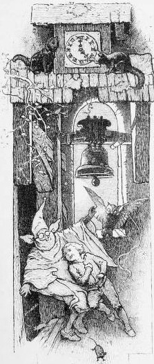 illustration of the Brothers Grimm fairy tale "The tale of a youth who set out to learn what fear was"